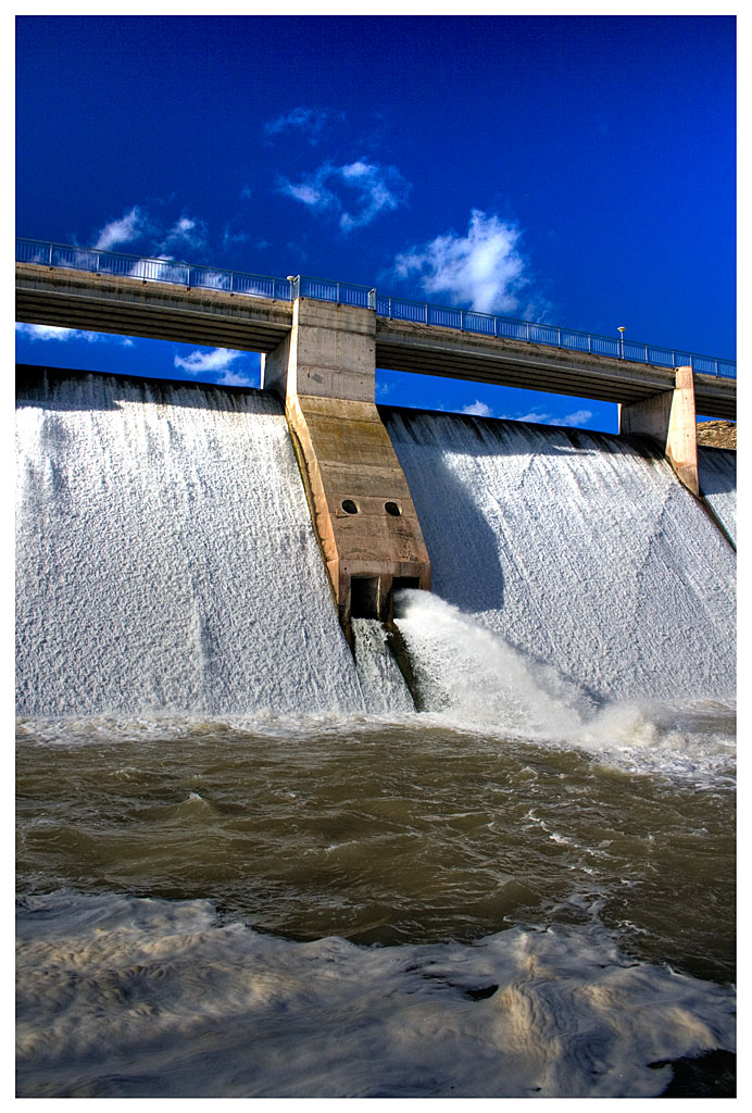 Leiva's dam, in La Rioja, Spain.